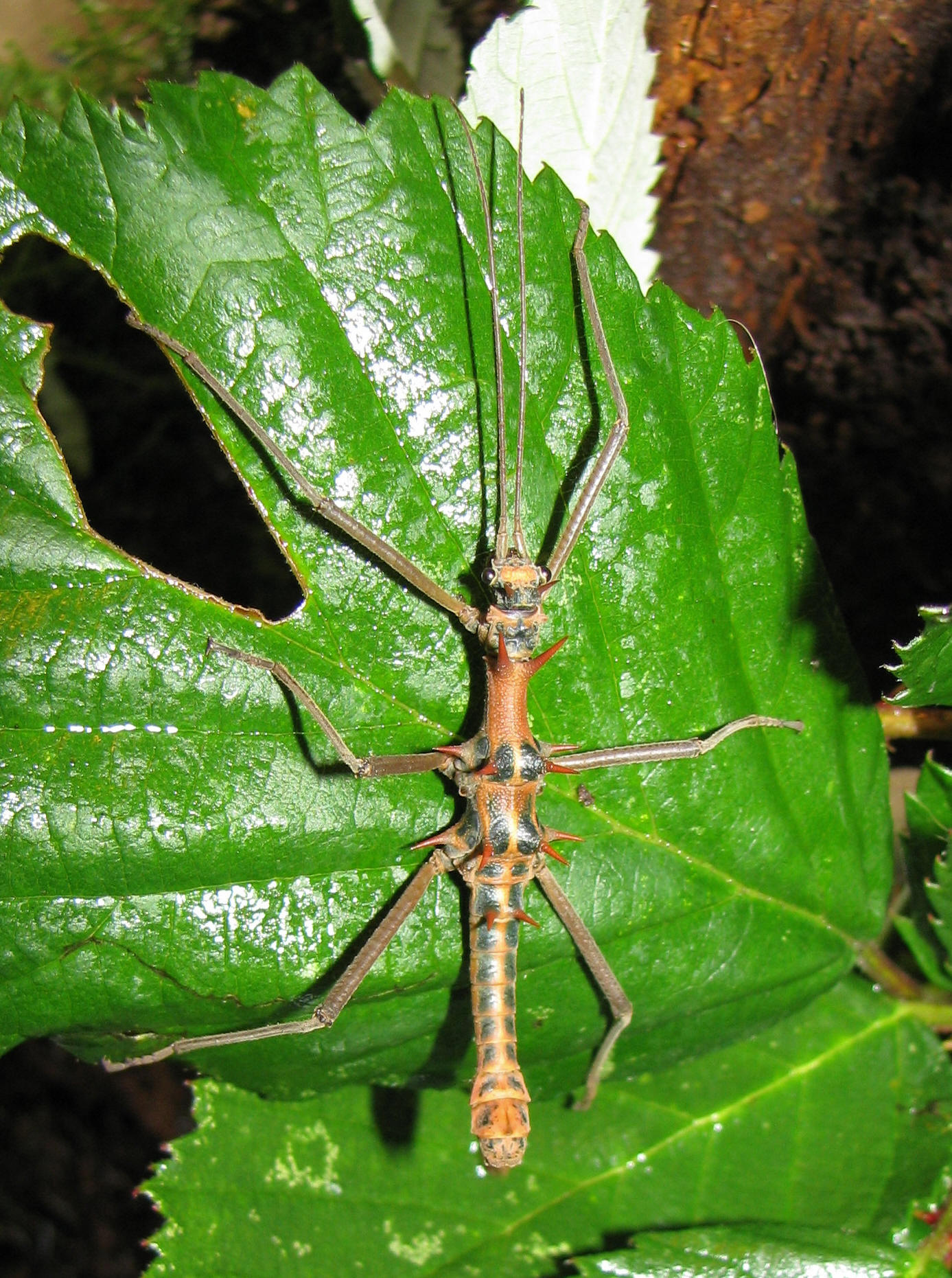 male of Touch Me Not Stick Insect (Epidares nolimetangere)